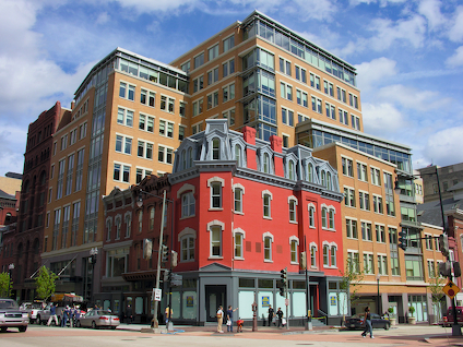 Atlantic Building